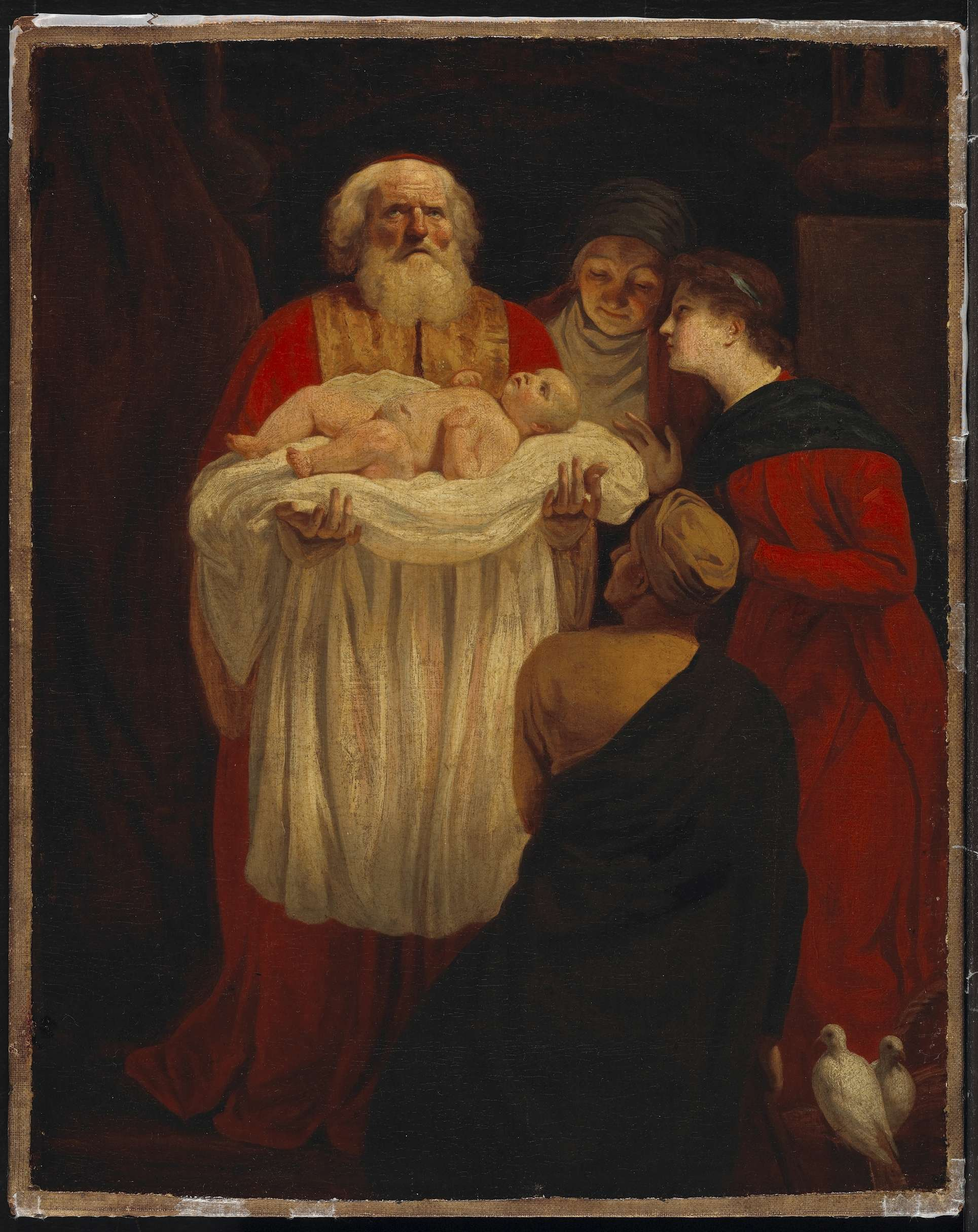 The Presentation in the Temple